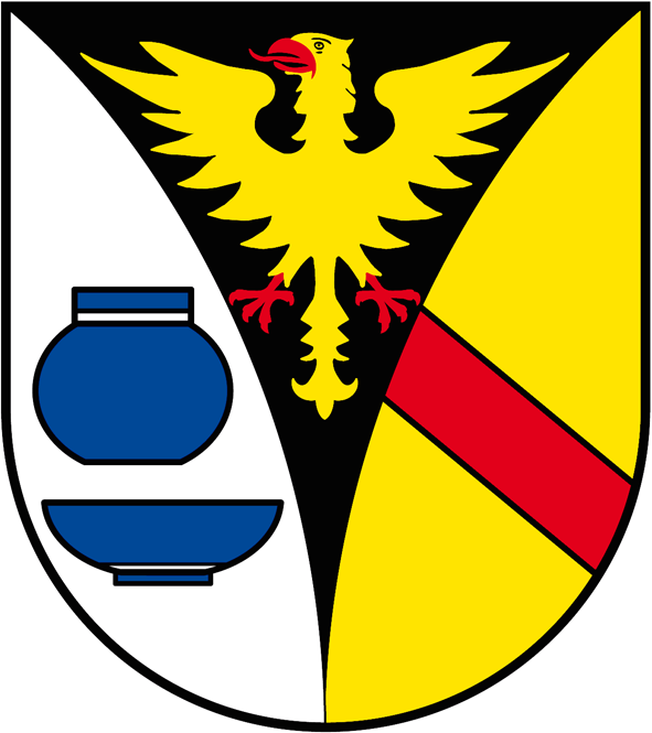 Coat of arms of Niedersohren